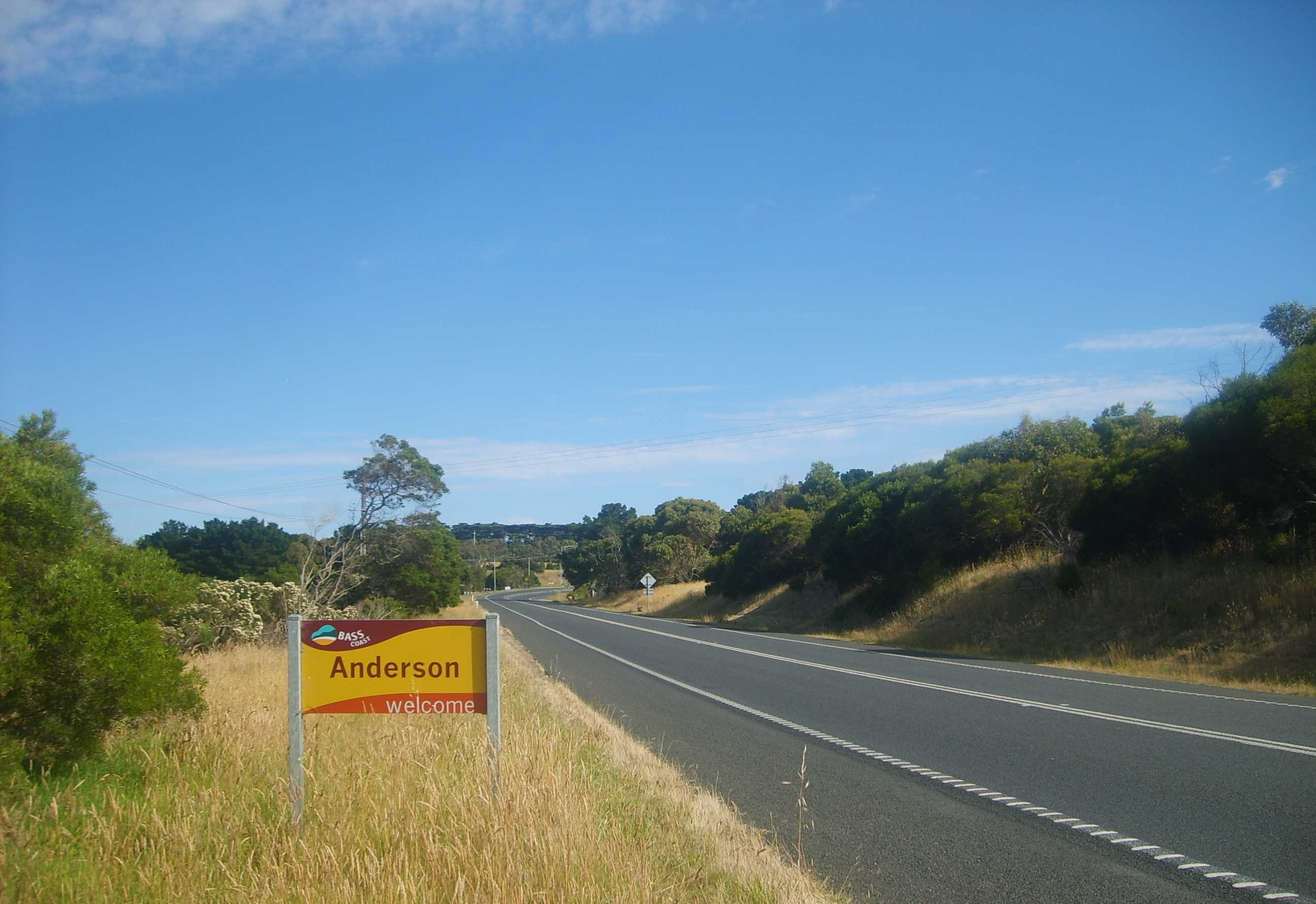 Entrance to Anderson, Victoria travelling from Kilcunda, Victoria